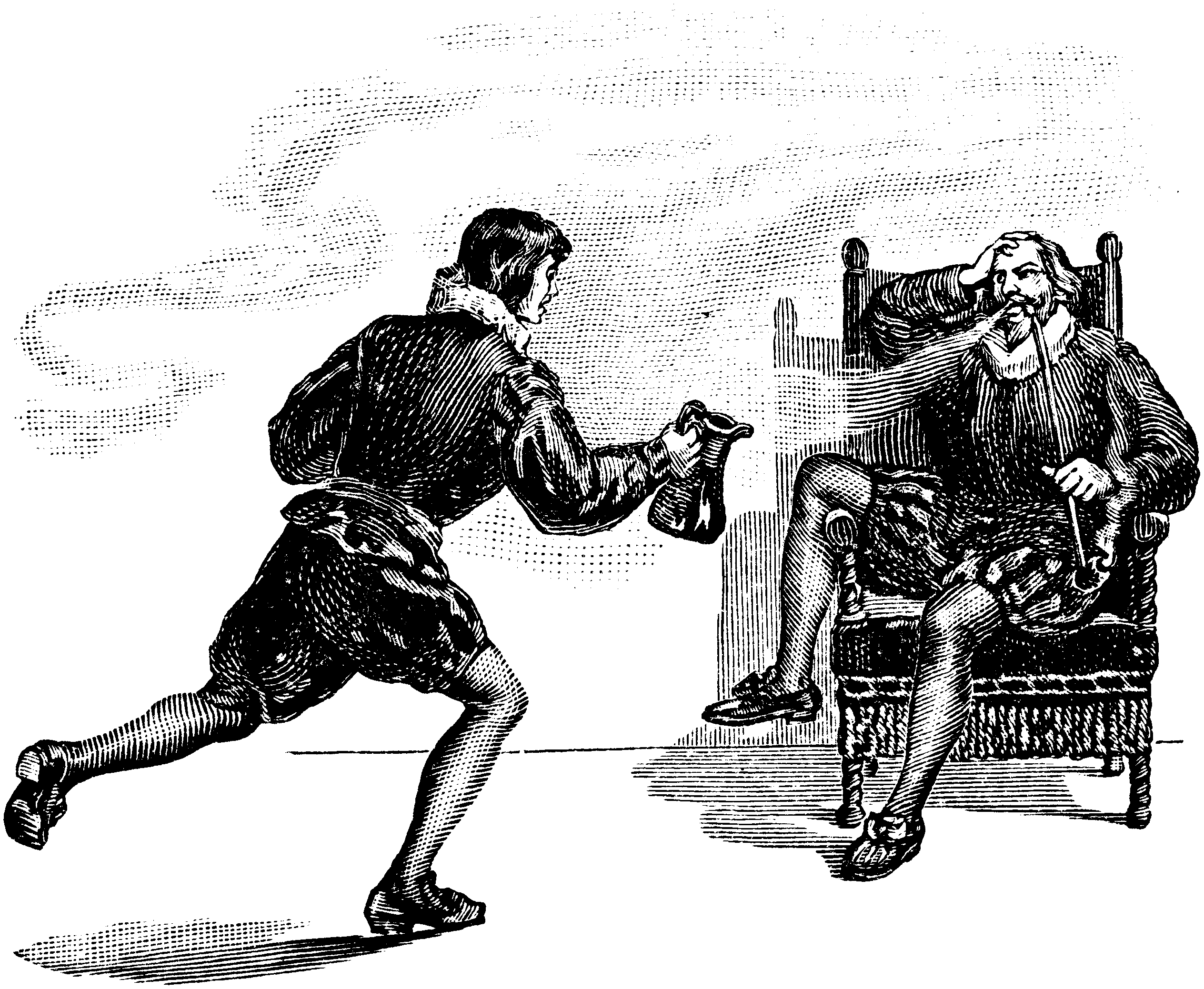 The First Pipe of Tobacco. (Raleigh's servant thought his master was on fire.)